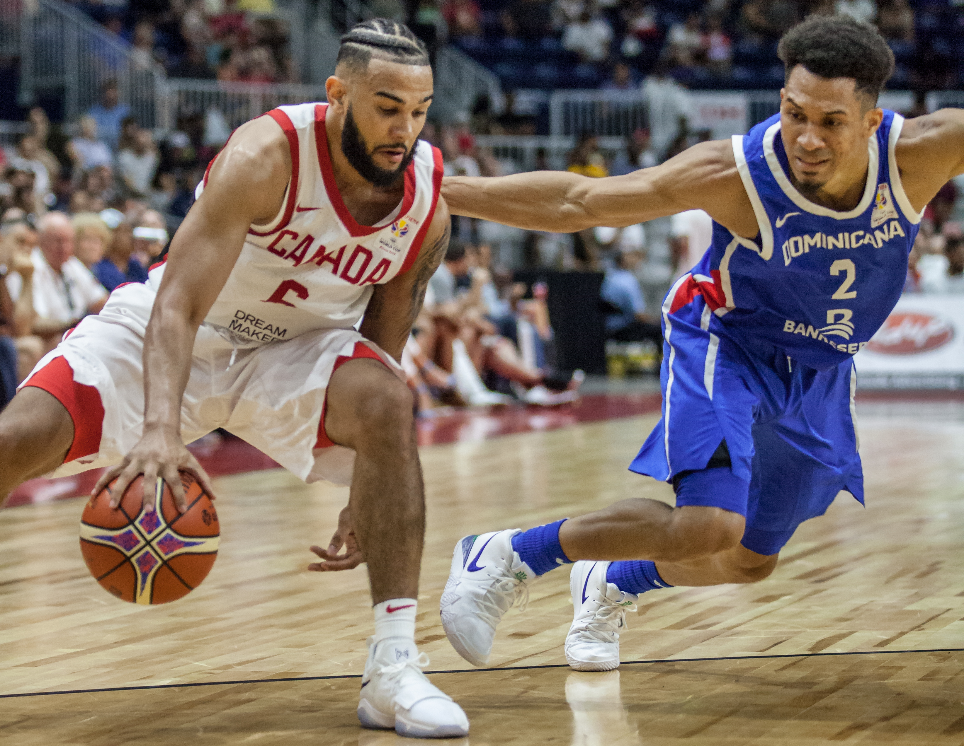 Cory playing for Team Canada in 2018 during the FIBA World Cup Qualifiers.